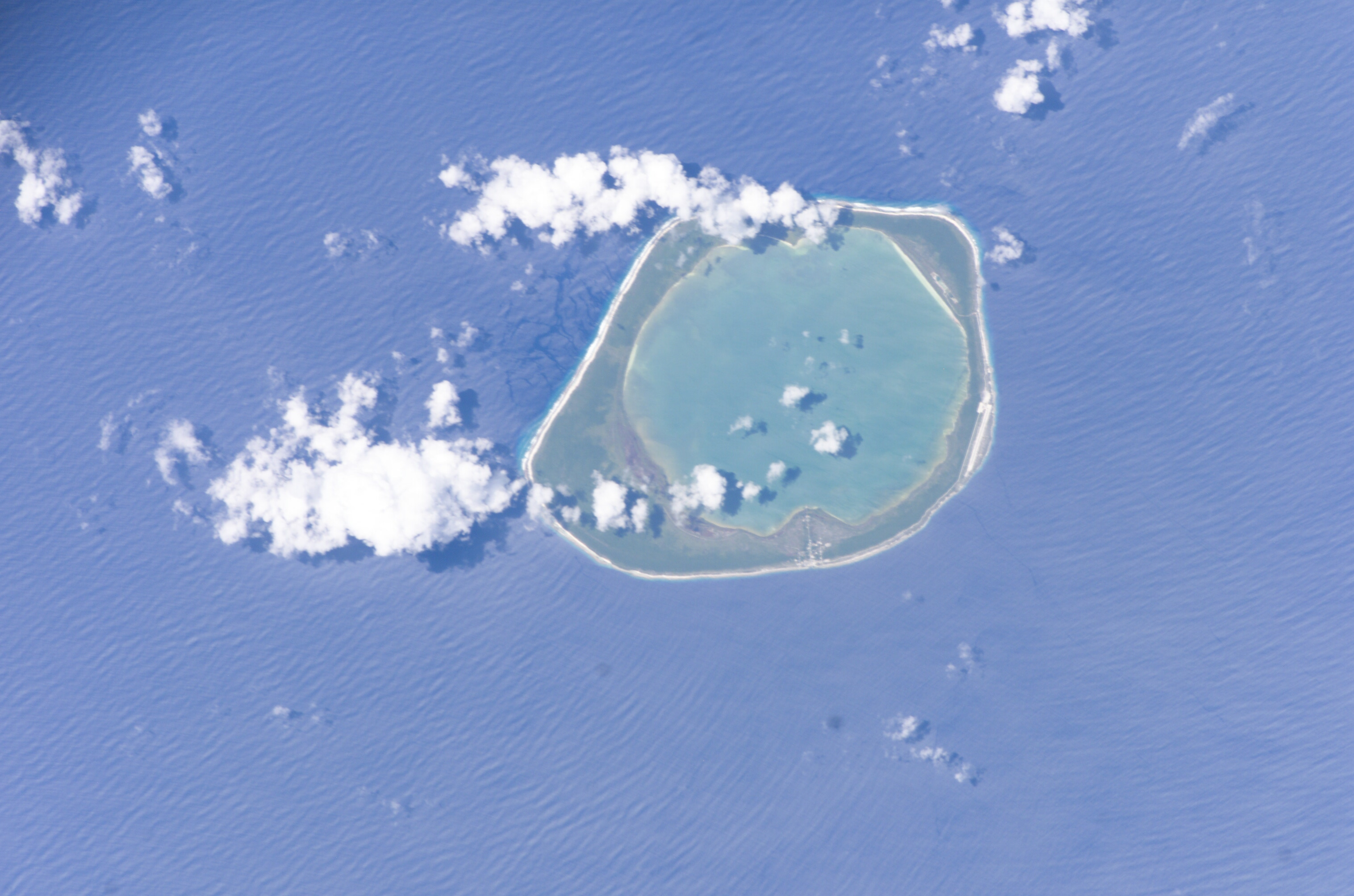 An image from the International Space Station of the Niau Atoll in the Tuamotu Archipelago, French Polynesia.